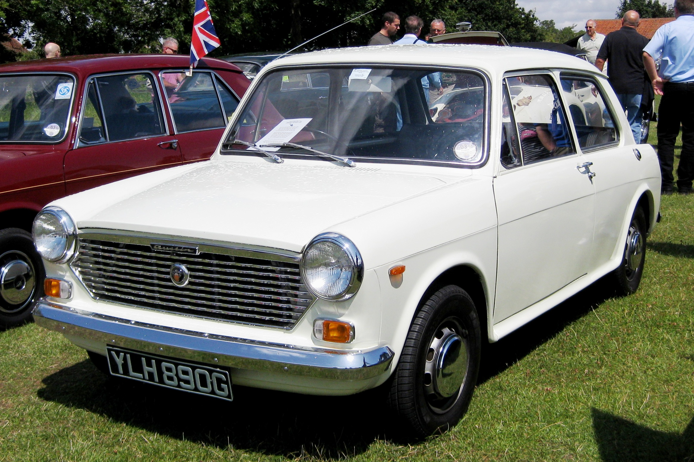 Austin 1100 Mk2 The Mk 2 retained the(probably more expensive) chrome ribbed grill which had been an Austin hallmark for over ten years. But the grill on the Mk 2 was wider than that on the Mk 1. The Mk 3 would dispense with this grill entirely and replace it with a (probably cheaper to produce) black grill crossed by a single horizontal bar for the Austin 1100 (and three close together horizontal bars for the 1300).